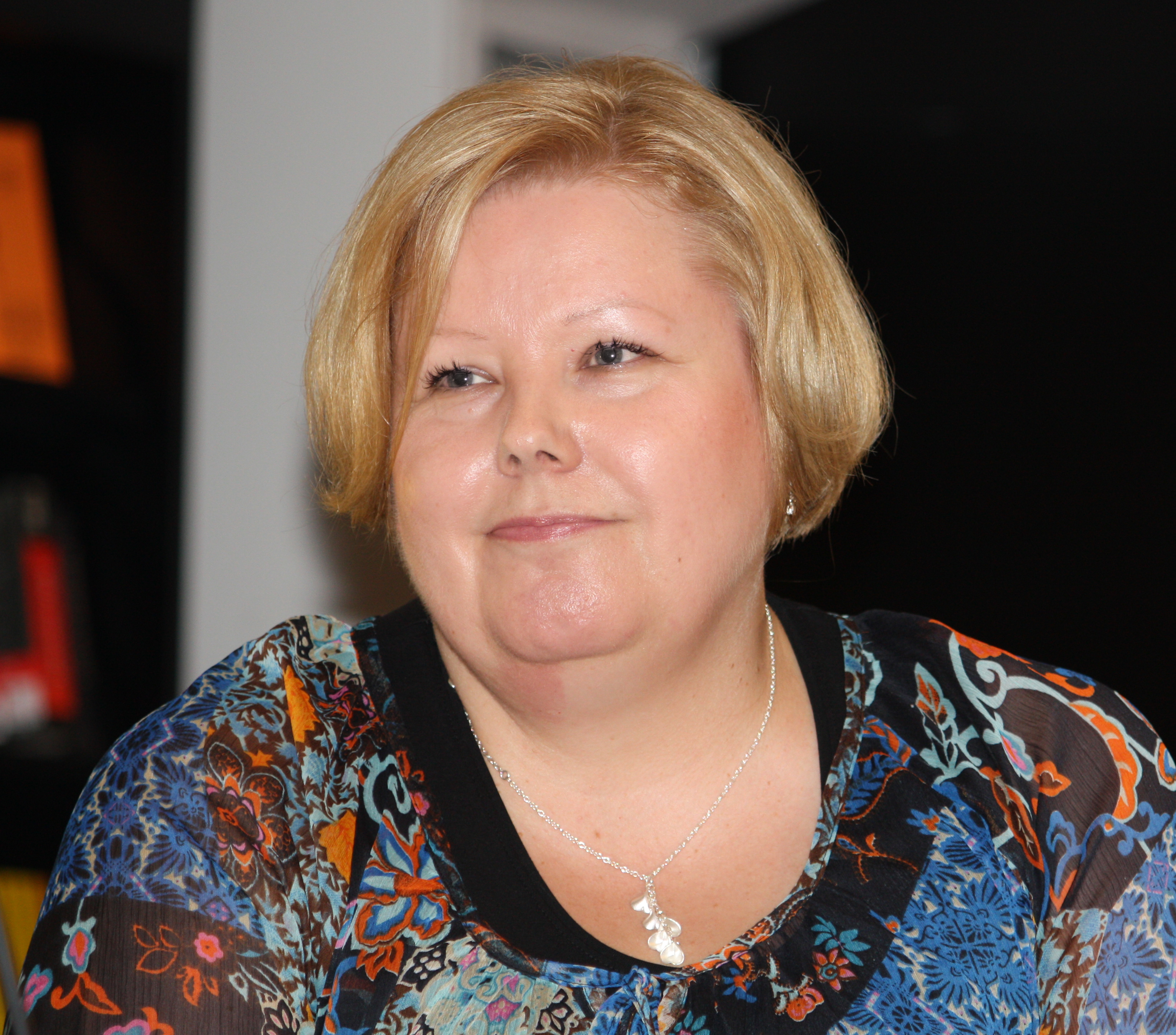 Finnish writer Kristiina Vuori on the Night of The Arts in Helsinki 2013